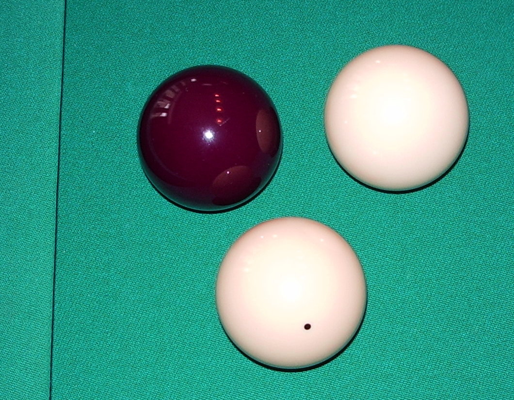 A standard set of carom billiards balls (61.5 mm [27⁄16 in] diameter), including a red object ball, a plain white cue ball, a dotted cue ball for the opponent. Some games use two object balls.